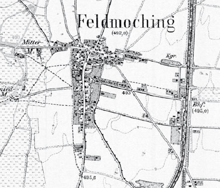 Map of Munich and its suburbs. Compiled from some sheets of the topographic map of Bavaria with the scale 1:25.000 from the years 1907-1914